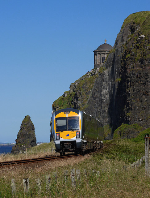 Train passing under Musseden Temple at Downhill County Londonderry